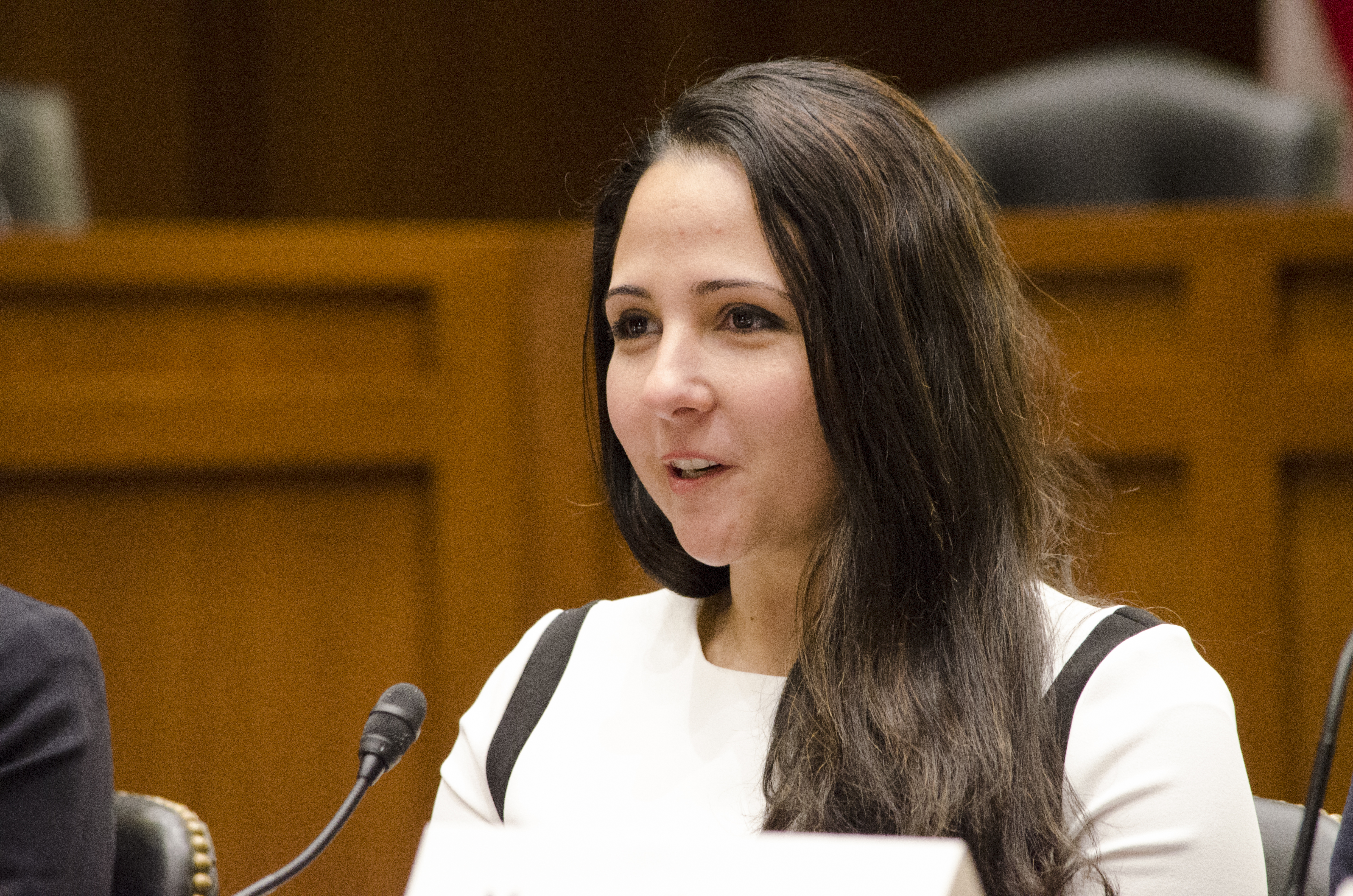 Former political prisoner and founder of the Belady foundation Aya Hijazi talks about her experience as a political prisoner, the current sentiment of Egypt's youth, and the repressive conditions in Egypt during a congressional briefing on the upcoming presidential elections. Panelists included (L-R): Andrew Miller Deputy Director for Policy, Project on Middle East Democracy (POMED) Michele Dunne Senior Fellow and Director of the Middle East Program, Carnegie Endowment for International Peace Aya Hijazi Former political prisoner; Founder, Belady Foundation Khadija Konsowa Cousin of detained 2018 presidential candidate Colonel Ahmed Konsowa Moderated by: Sahar Aziz Professor of Law Rutgers University Law School March 13, 2018 Hart Senate Office Building Washington, DC Photo credit: April Brady/Project on Middle East Democracy